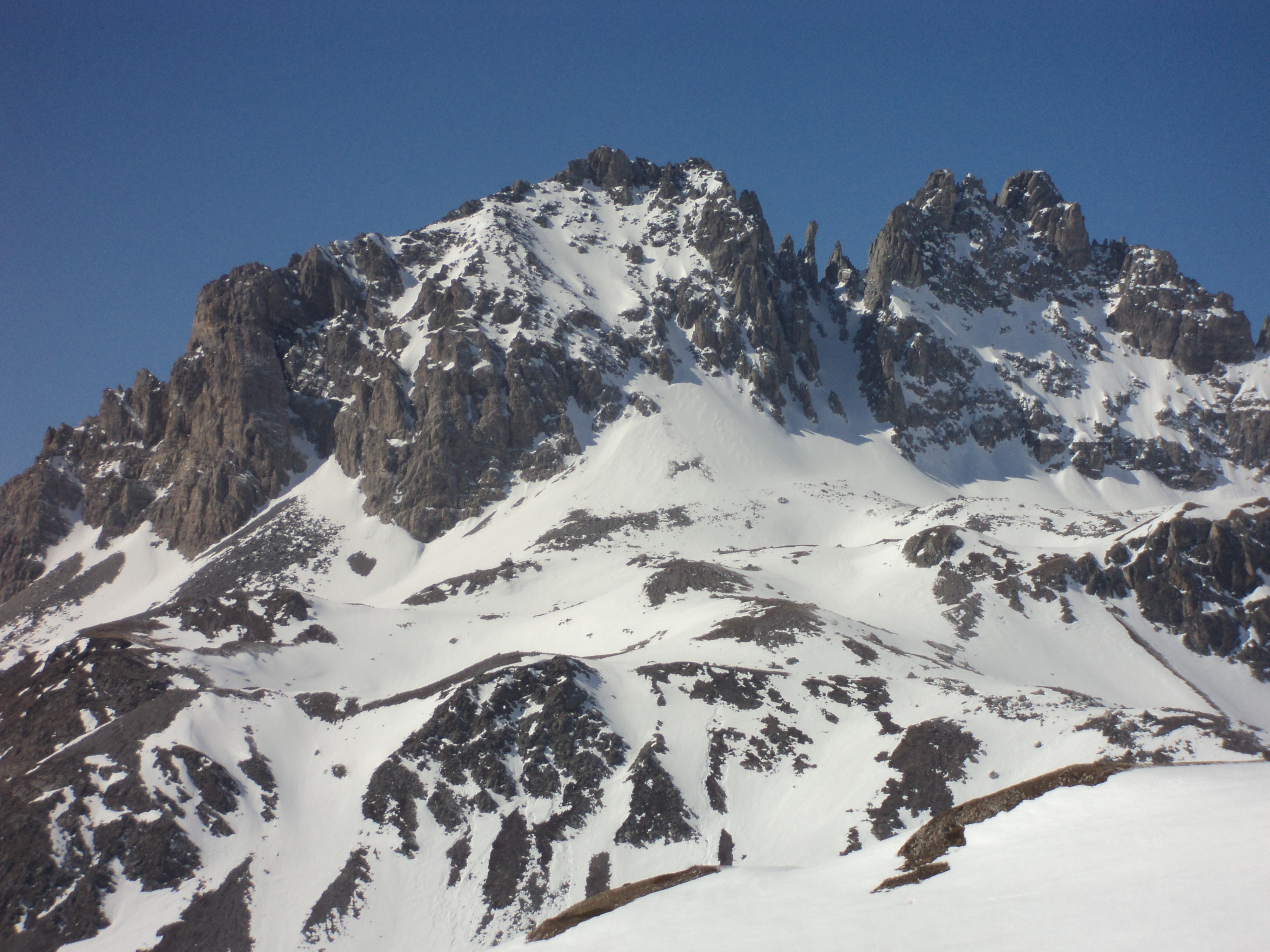 Grand Seru from Colle di Valle Stretta - Cottian Alps - France